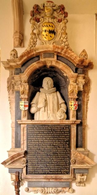 Mural monument in Belton Church, Lincolnshire, to Richard Brownlow (1553–1638) of Belton, a lawyer who served as Chief Prothonotary of the Court of Common Pleas. Heraldry: top: Brownlow (Or, an escutcheon within an orle of martlets sable) impaling Page of Wembley. Arms of Richard Brownlow (1553–1638), impaling Page (Or, a fess dancetty between three martlets sable a bordure of the last) arms of his wife Katherine Page, daughter of John Page of Wembley, Middlesex, a Master in Chancery and one of the first governors of Harrow School. Lower left: Arms of Sir John Brownlow, 1st Baronet (1590-1679) of Belton, Sheriff of Lincolnshire, eldest son of Richard Brownlow (1553–1638), Brownlow (with inescutcheon of a baronet) impaling Poultney (Argent, a fess dancetty gules in chief three leopards faces sable), for his wife; right: Arms of Sir William Brownlow, 1st Baronet of Humby (1595-1666), second son of Richard Brownlow (1553–1638), Brownlow (with inescutcheon of a baronet) impaling Duncombe (Per chevron engrailed gules and argent, three talbot's heads erased counterchanged), for his wife.